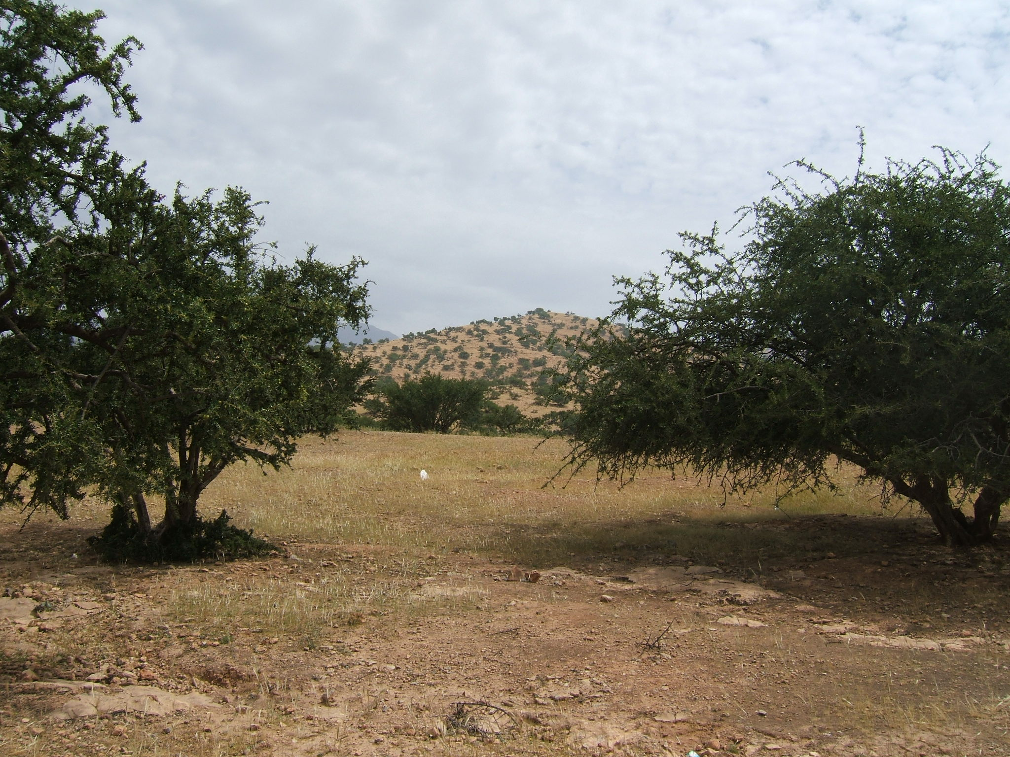 Argania spinosa habitat, northeast of Taroudant, Sous Valley, Maroc